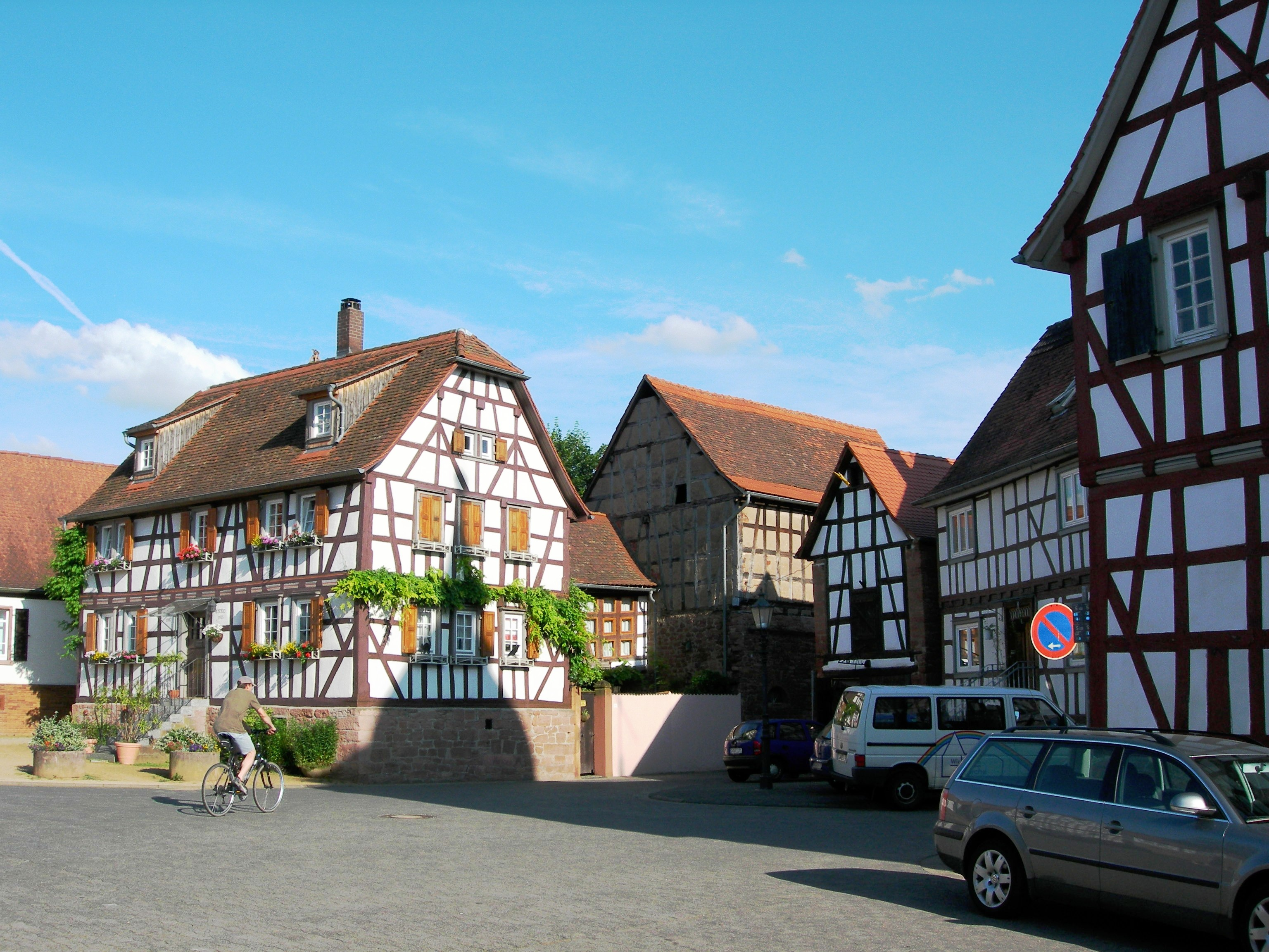 Heubach near Groß-Umstadt (Hesse), historical market square